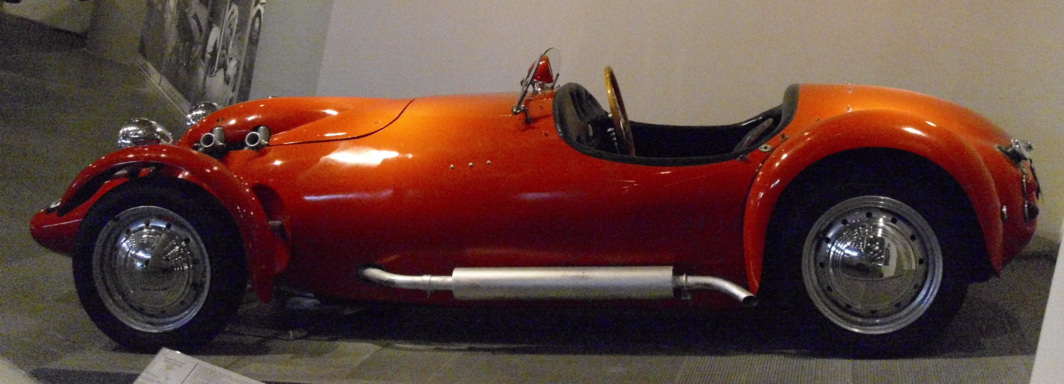 Super Accessories Super Two 1962